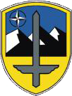 Internal coat of arms of the Bundeswehr (Armed Forces of the Federal Republic of Germany). → Remarks on naming and categorization scheme Wappen des Kdo 1. LwDiv